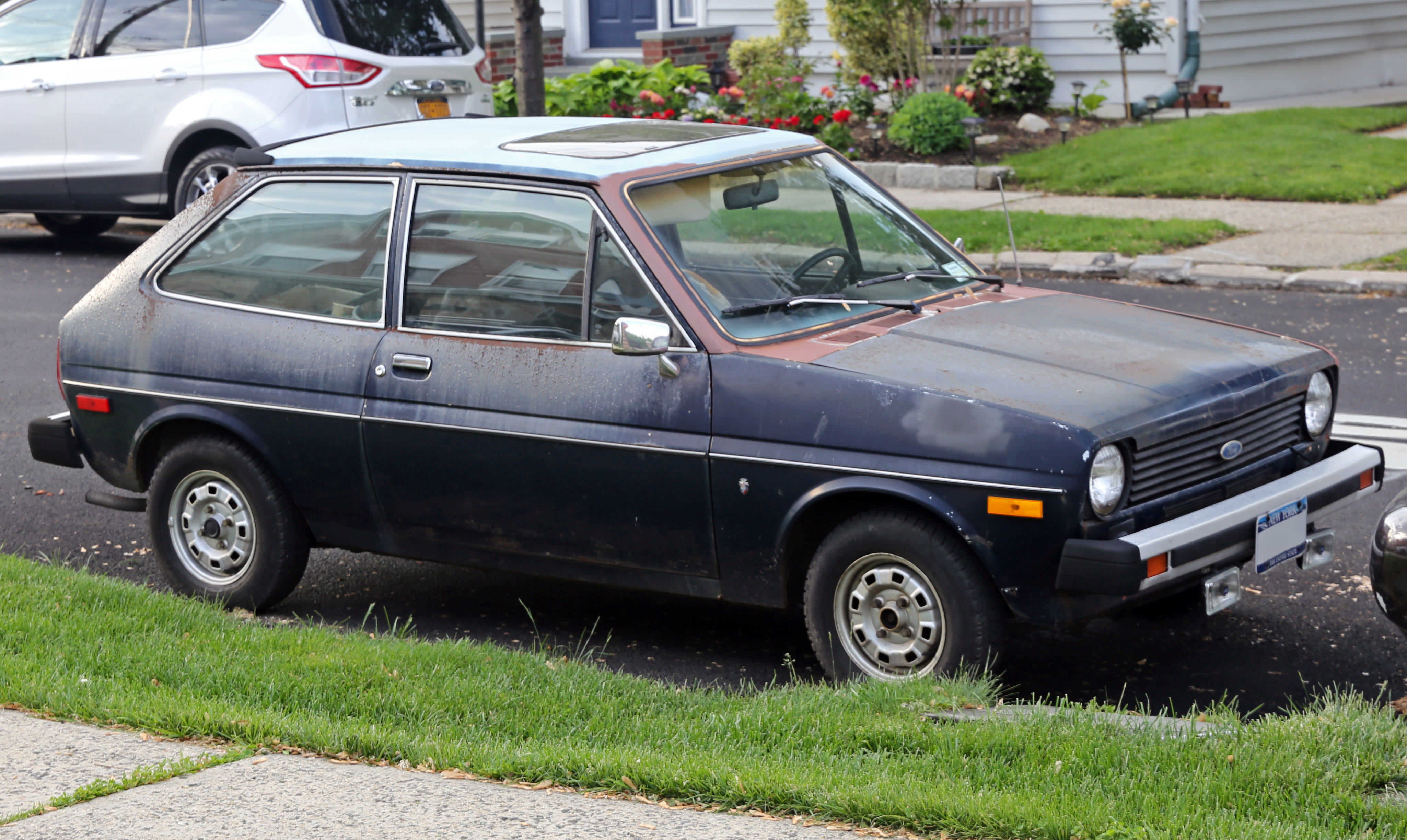 A 1979 Ford Fiesta Ghia, US market version. Built in October 1978, actually, at Ford's Saarlouis plant. Full of parts but missing much of the interior. Looks as if a restoration might happen.